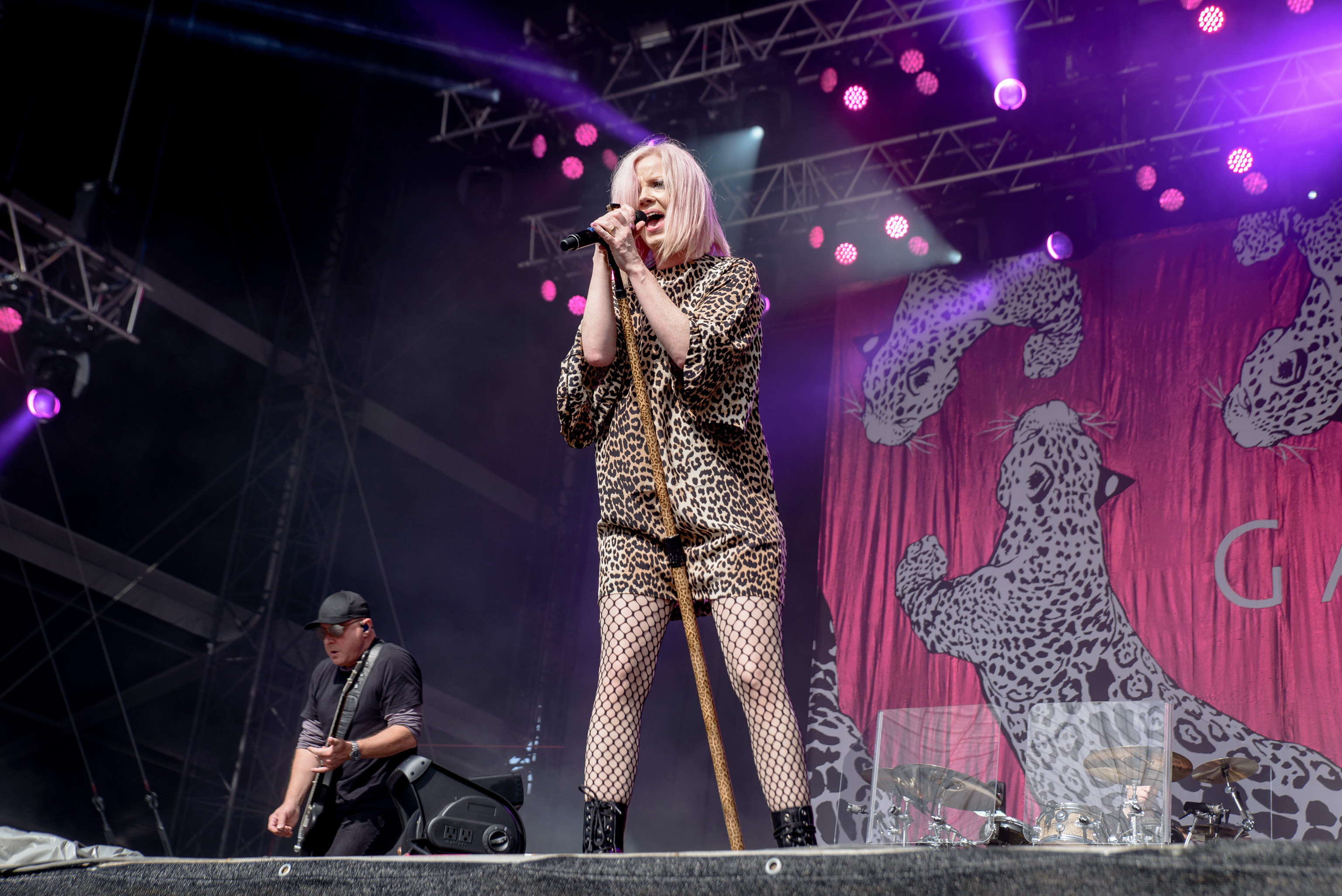 Garbage Live @ Rockavaria 2016